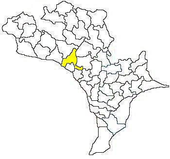 Mandal map of Krishna district showing Vijayawada (rural) mandal (in yellow)